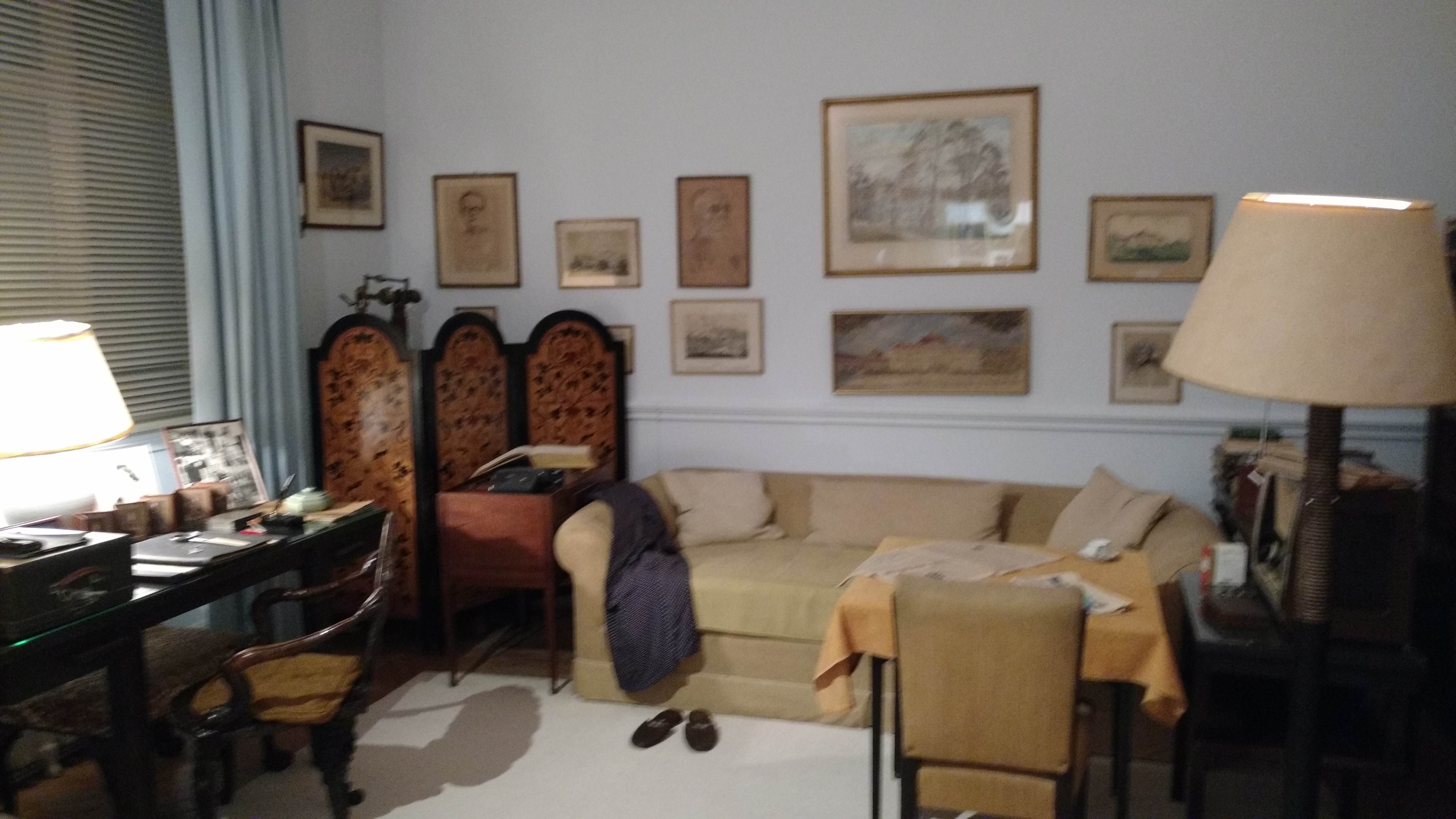 Imaged London cabinet of Edward Bernard Raczyński in palace in Rogalin